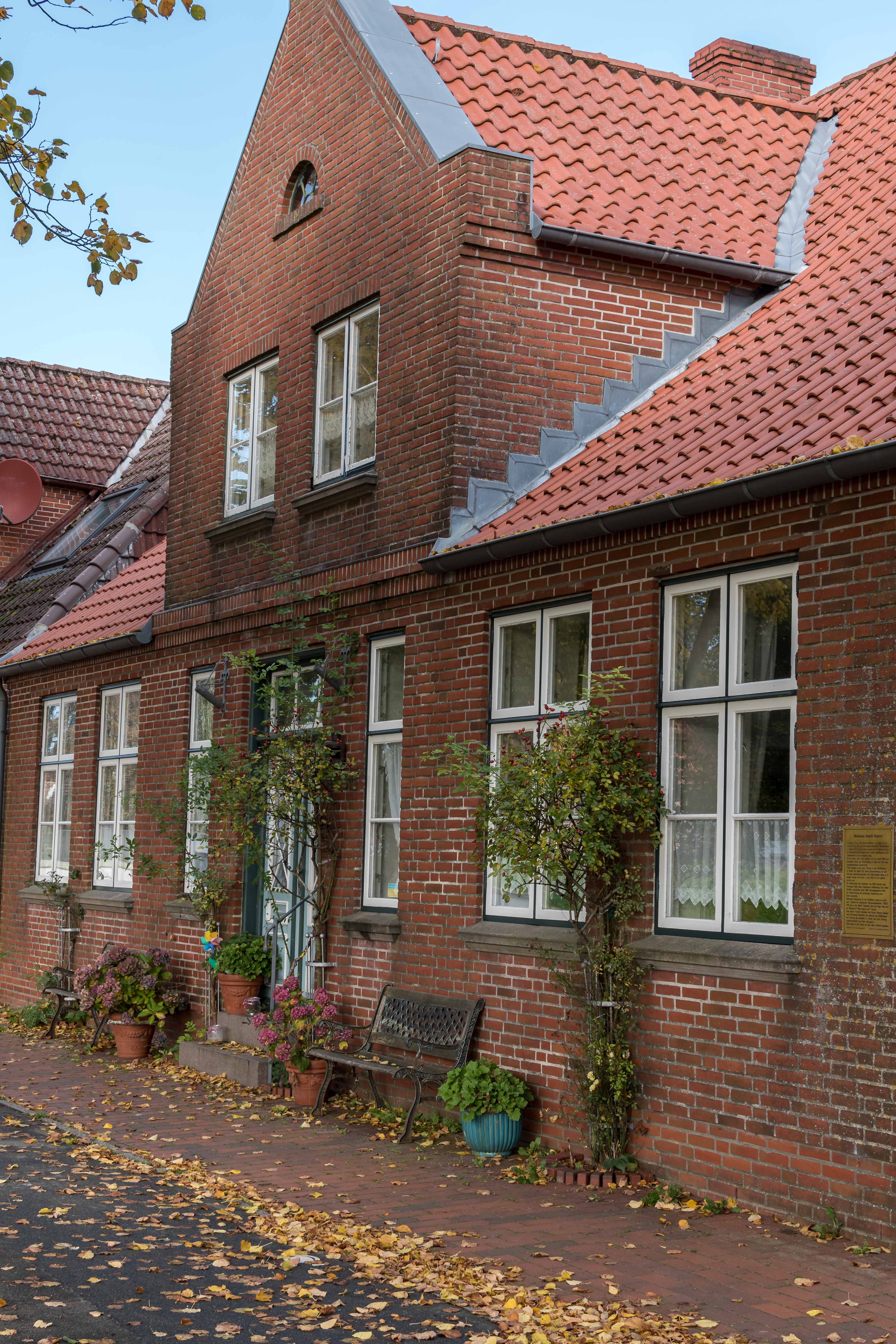 Wohnhaus Hinrich Brarens in Tönning/Schleswig-Holstein